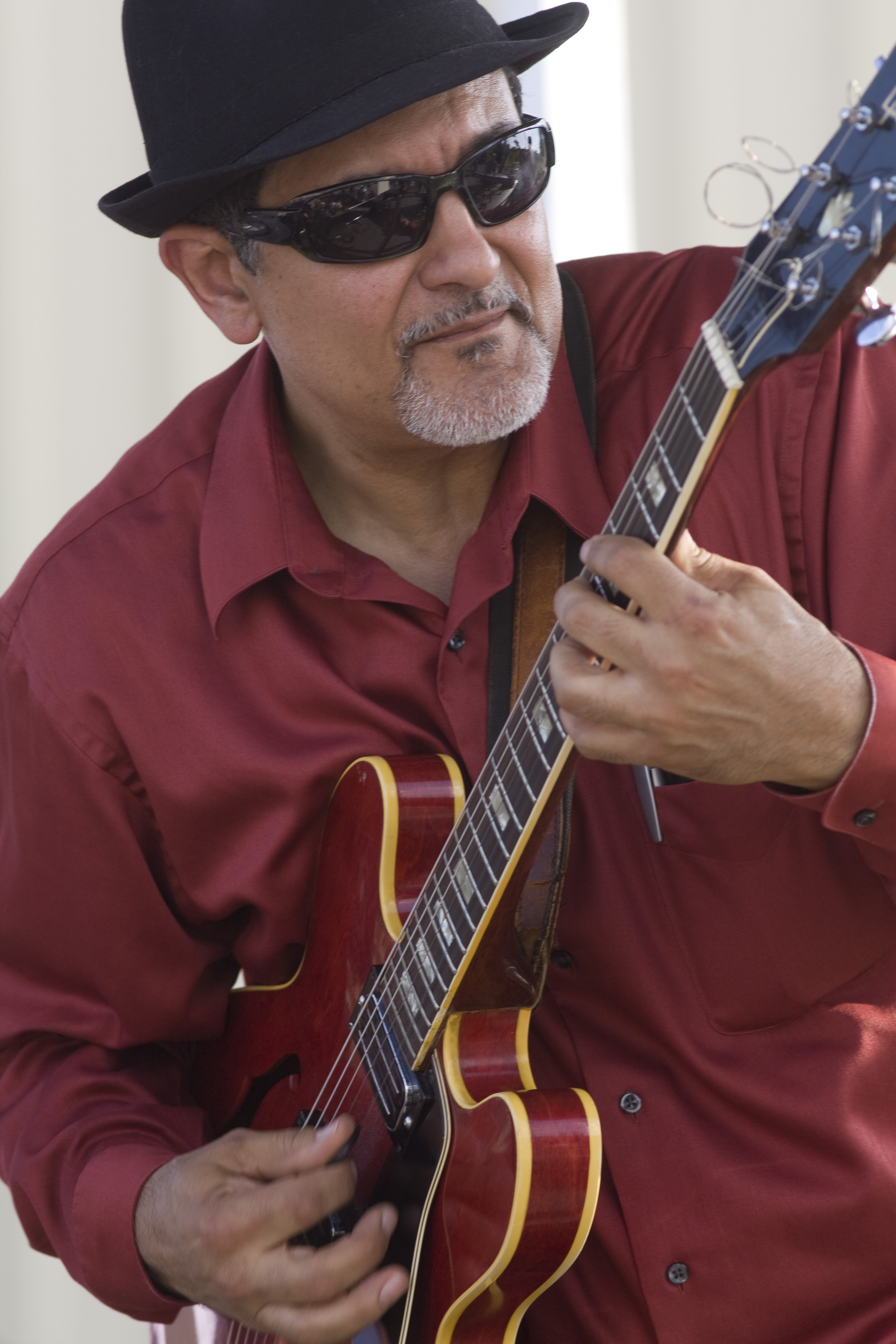 Don Vappie playing at Old Algiers Riverfest, New Orleans